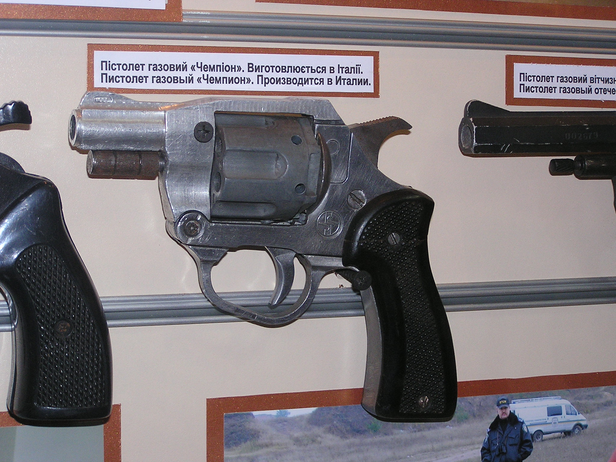 Museum of the History of Donetsk militsiya - Italian Champion gas revolver